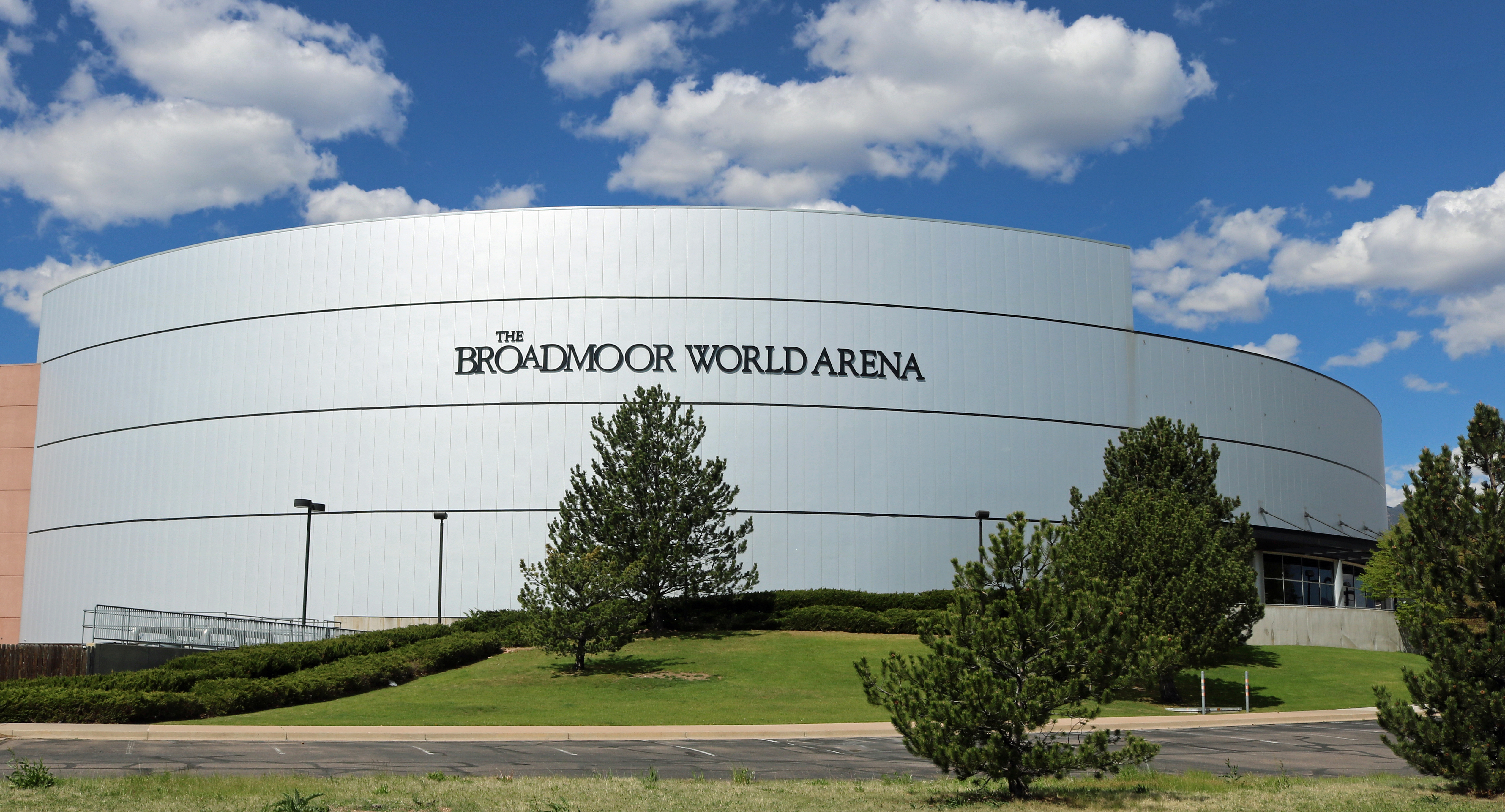 The Broadmoor World Arena, located at 3185 Venetucci Boulevard in Colorado Springs Colorado. The photograph shows the east-facing exterior of the arena building.